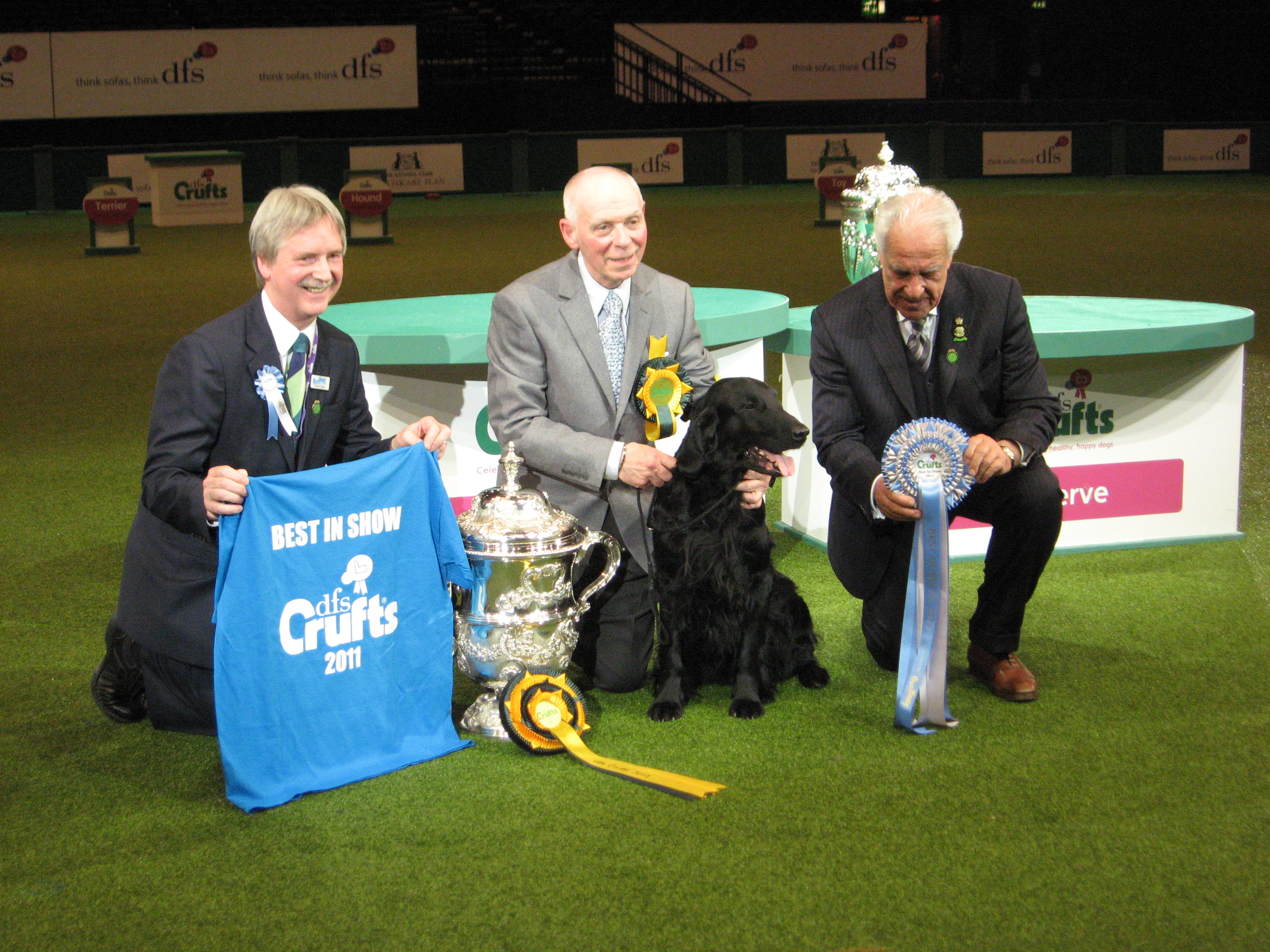 Best in Show 2011